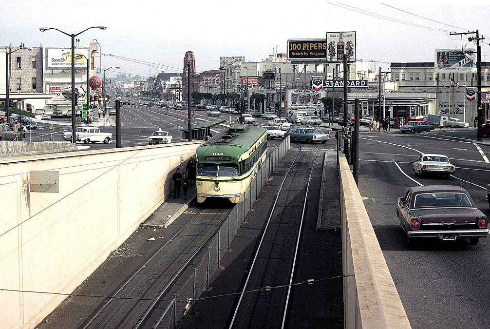 Streetcar #1149 enters the east portal of the Twin Peaks Tunnel in February 1967